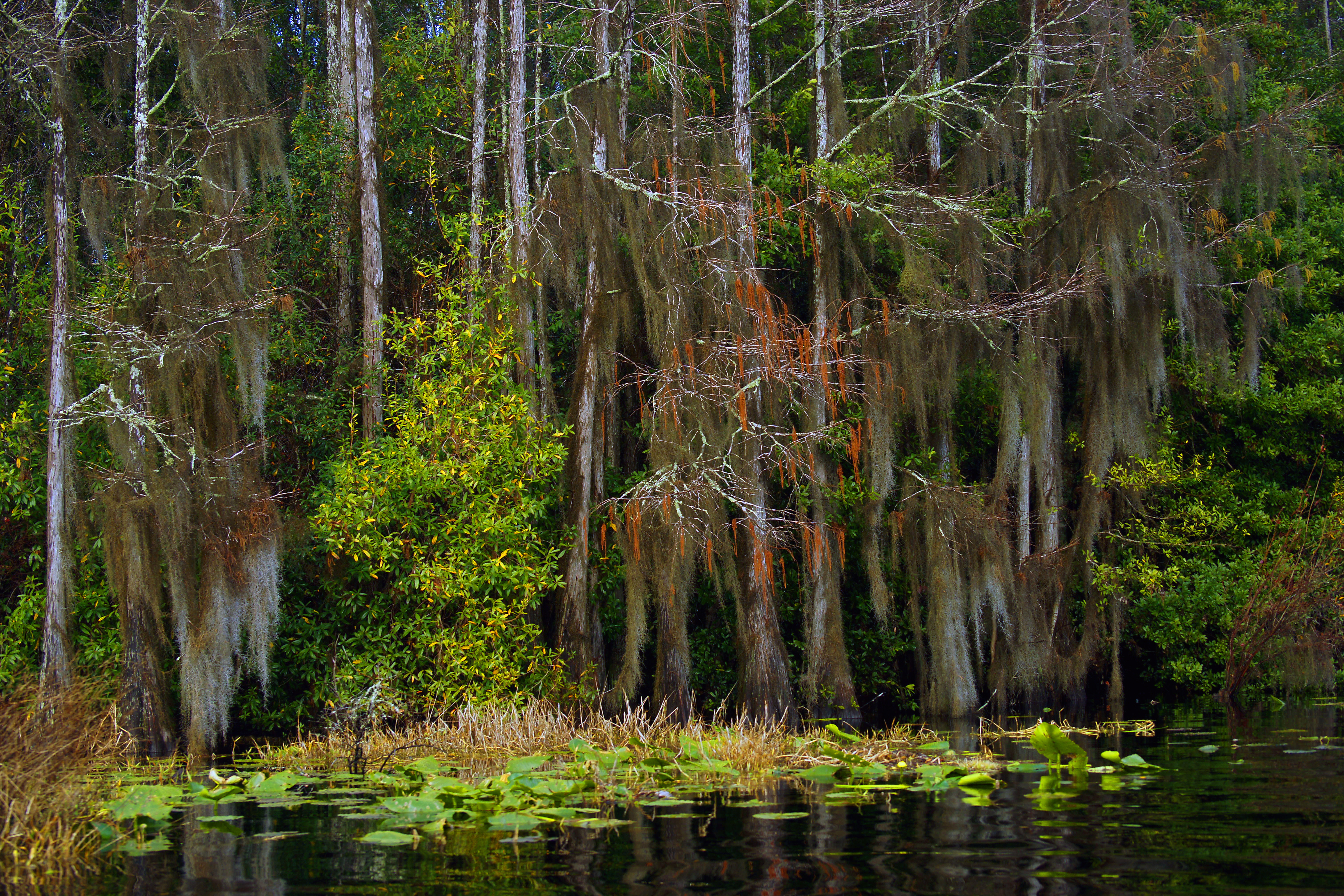 Swampland